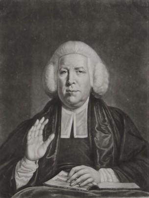 Portrait of Thomas Maxfield (died 1784), English Wesleyan Methodist preacher.